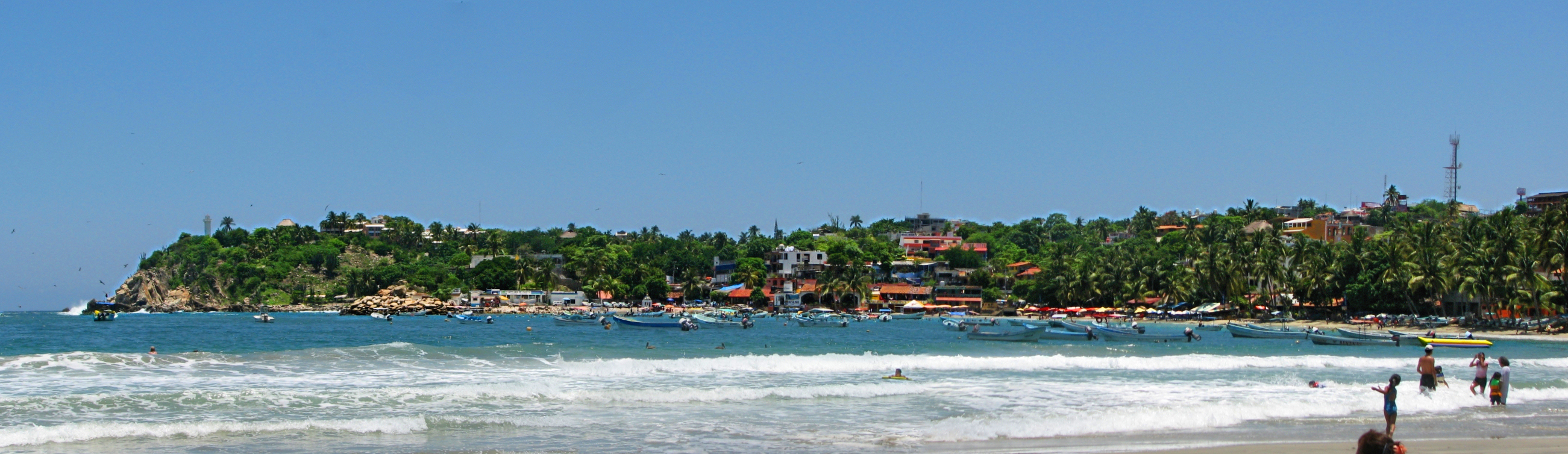 Panoramic photo of Playa Principal in Puerto Escondido, Oaxaca, Mexico